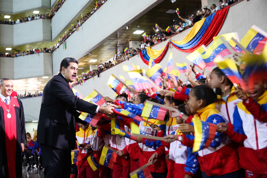 Meeting of Maduro with supporters at Maduro's second inauguration